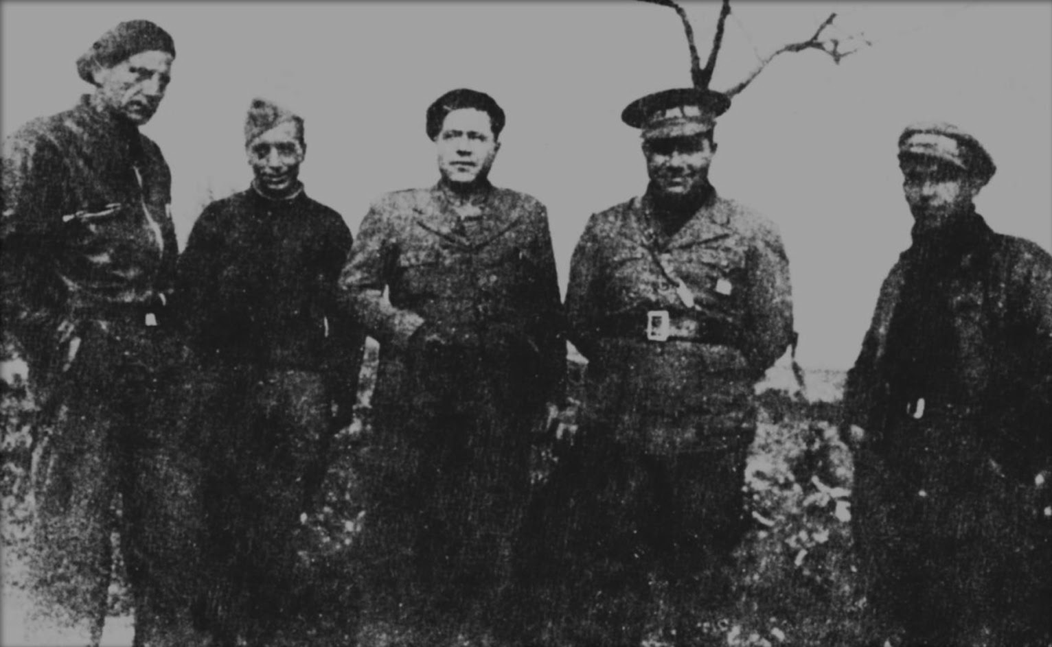 Dimitris Sakarelos (left), Greek communist and officer of International Brigades among Greek volunteers during the Spanish Civil War.